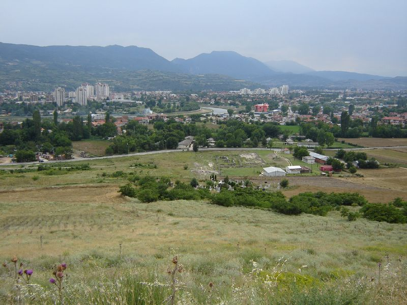 Skopje, the capital of Macedonia, and Scupi, roman archaeological site